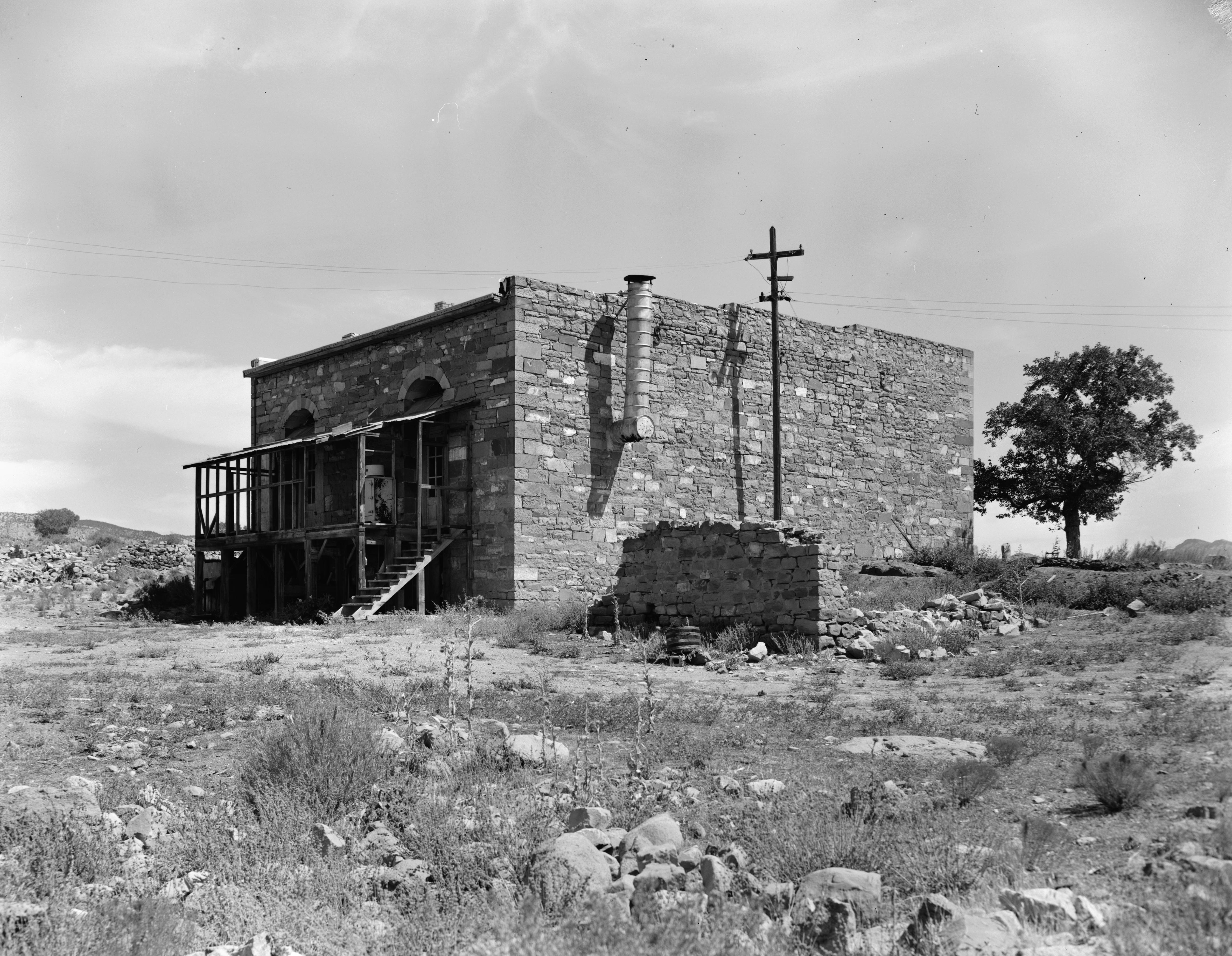 Southwestern side of the Wells Fargo and Company Express Building, located along Main Street in Silver Reef, Utah, United States. Built in 1877, it is listed on the National Register of Historic Places.